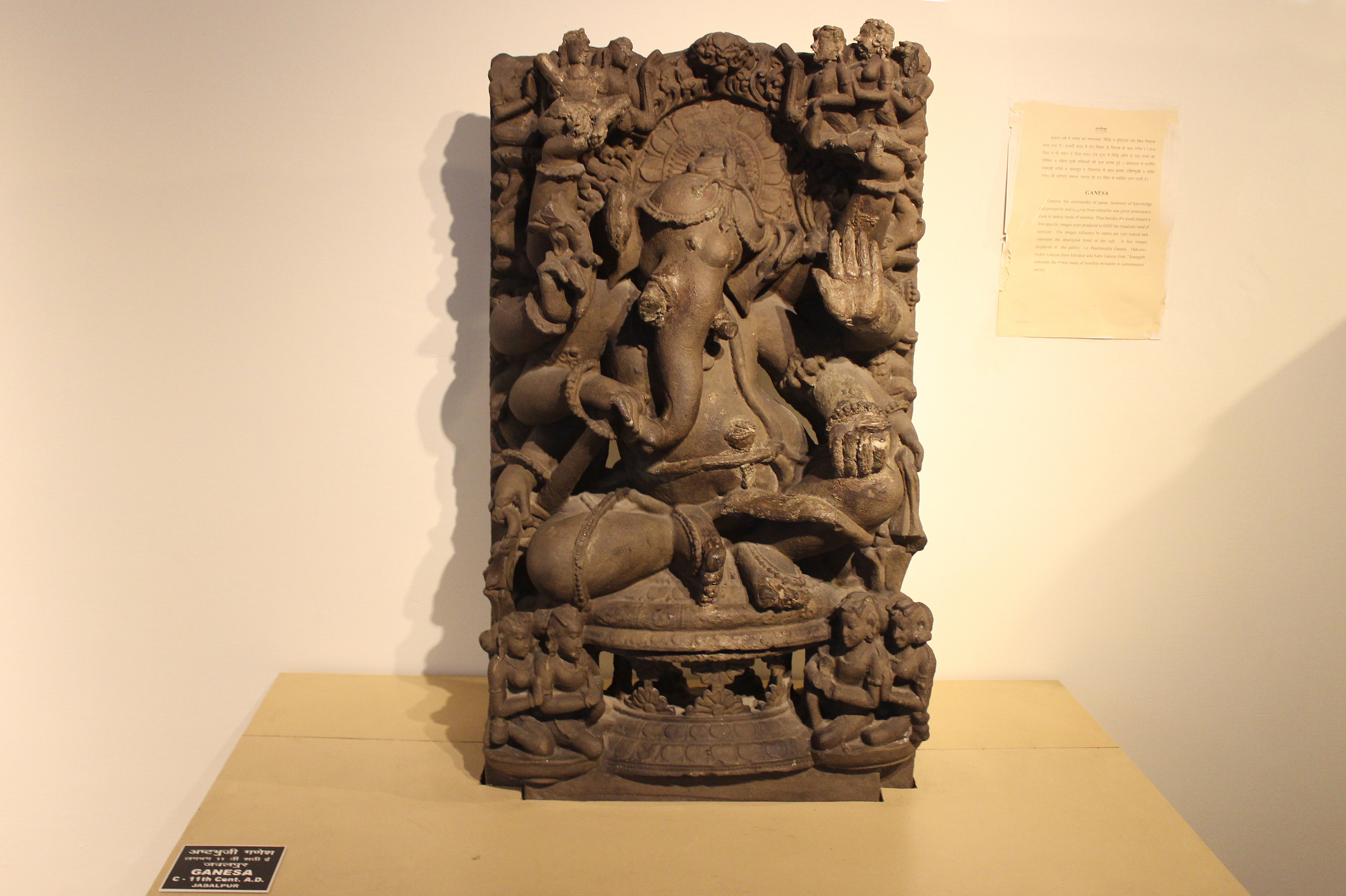 Ashtbhuji Ganesha Statue Jabalpur India